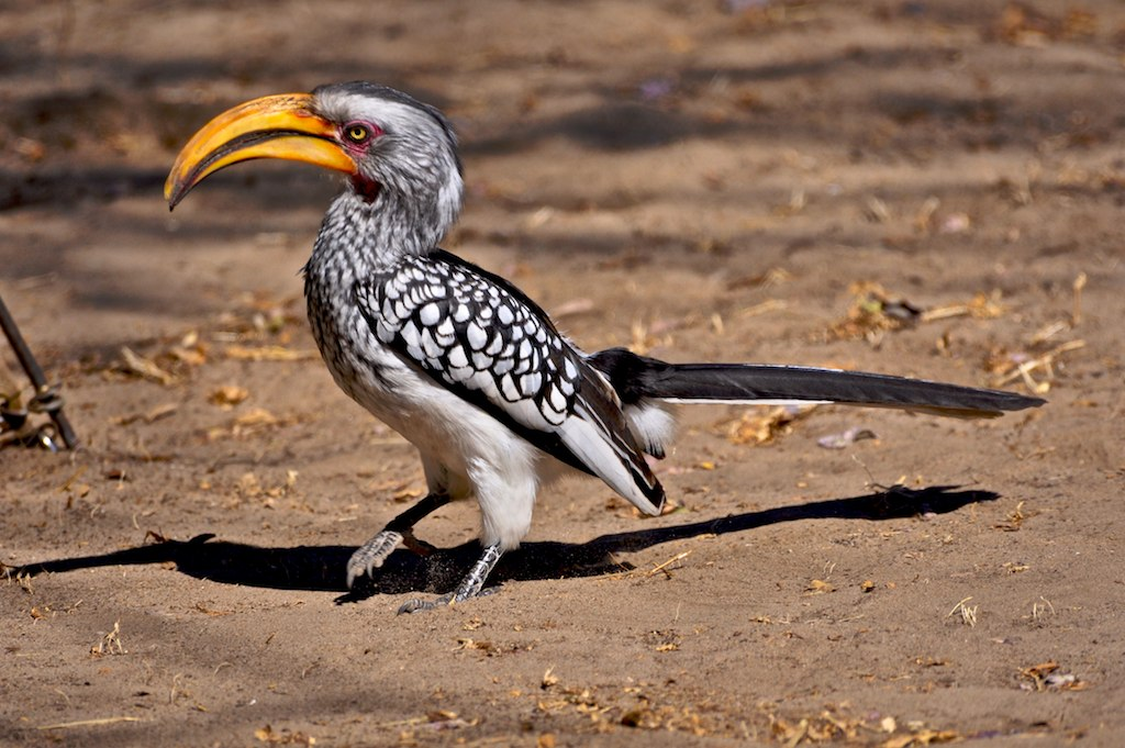 A Southern Yellow-billed Hornbill in the Kalahari Desert, Botswana.